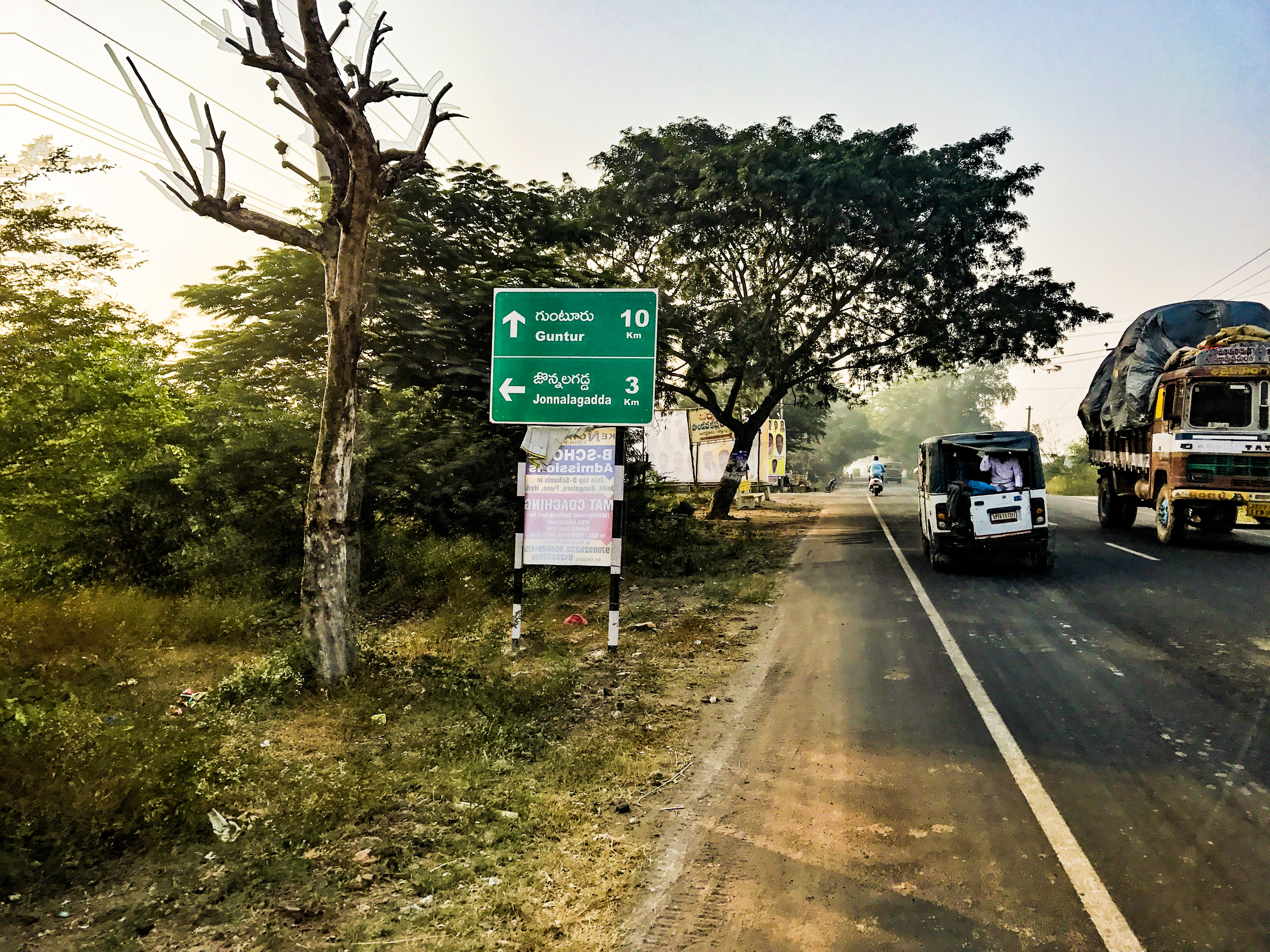 Board showing way to Jonnalagadda